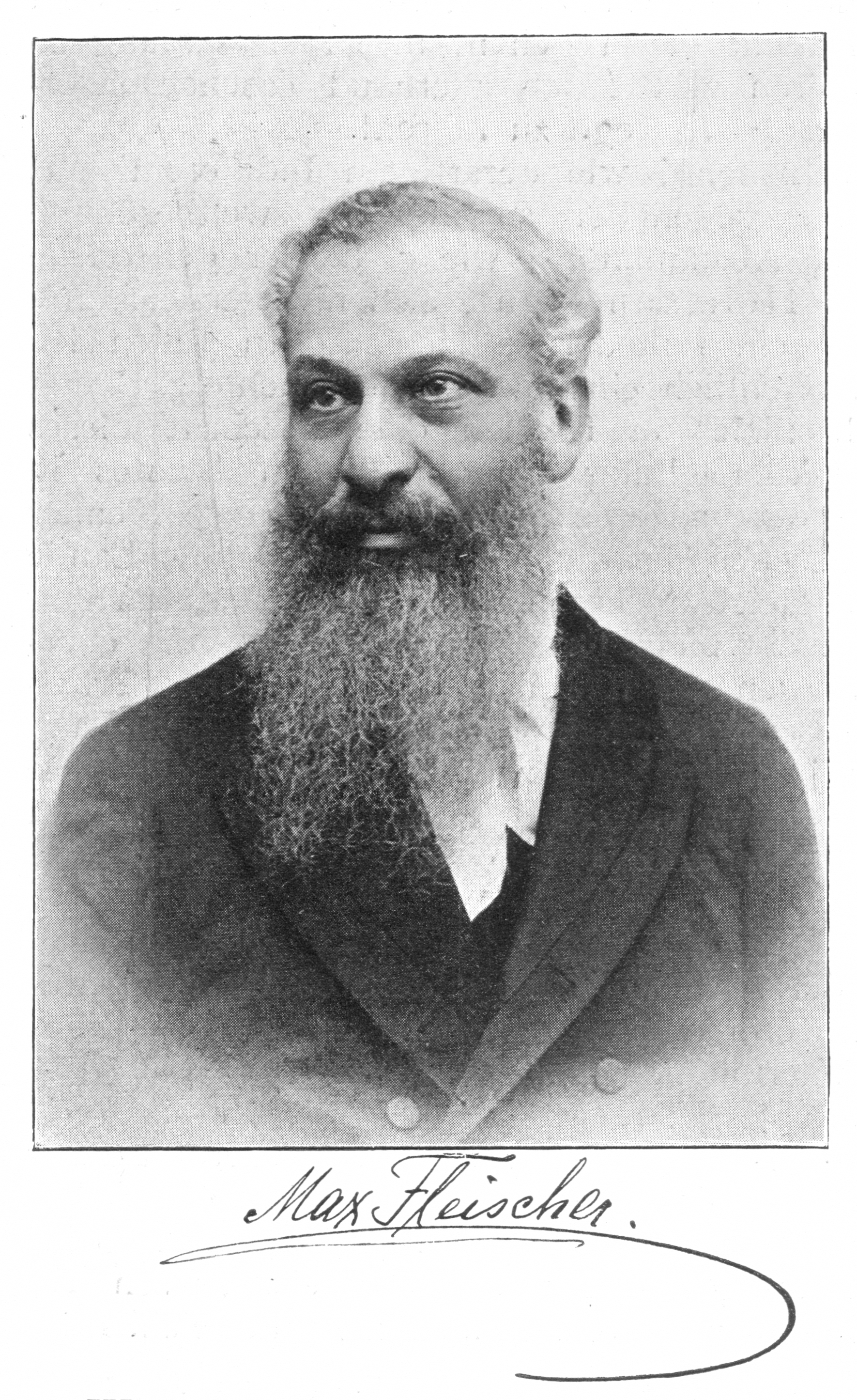 Max Fleischer, austrian architect, 1841-1905